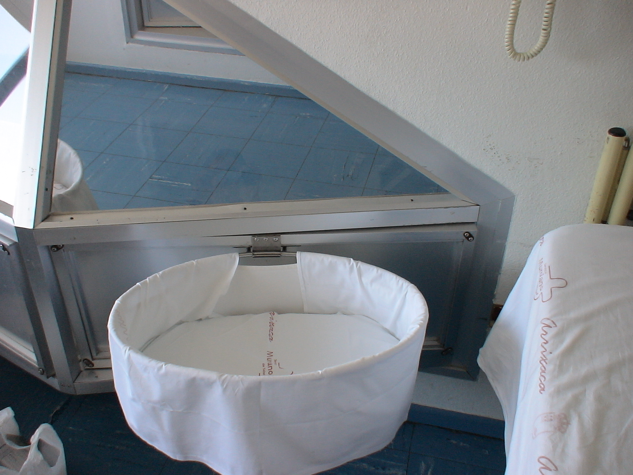 Hospital room bassinet